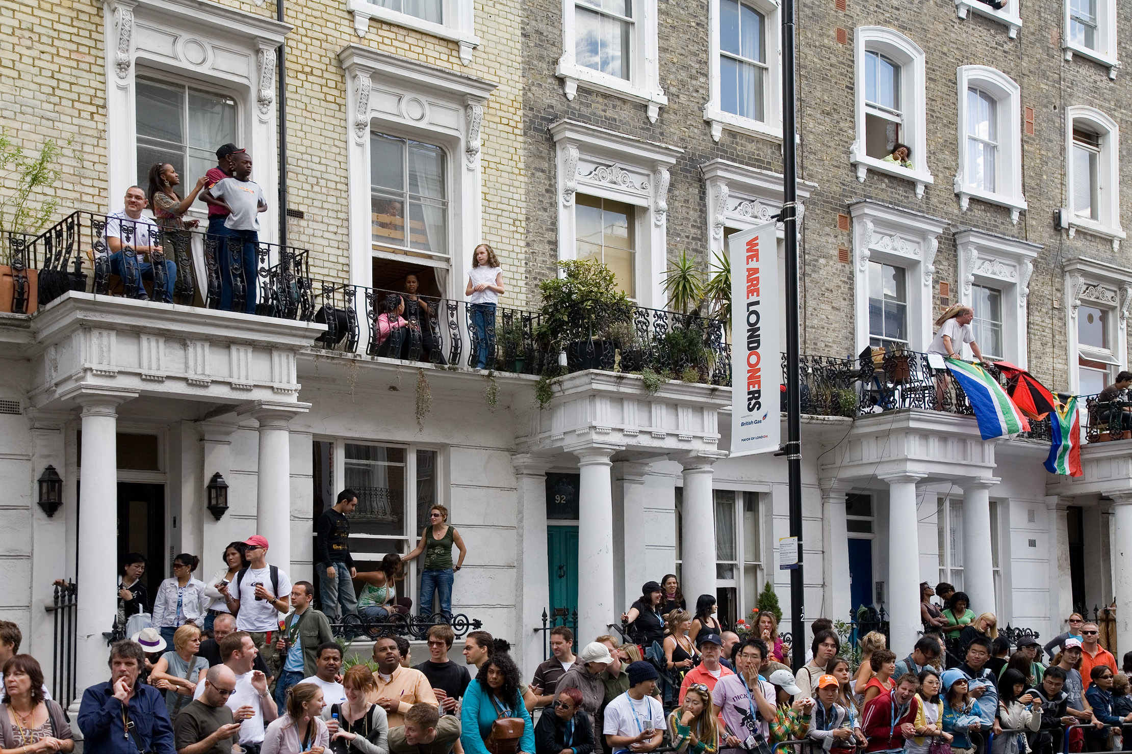 Resident participation at Notting Hill Carnival 2006 (London)